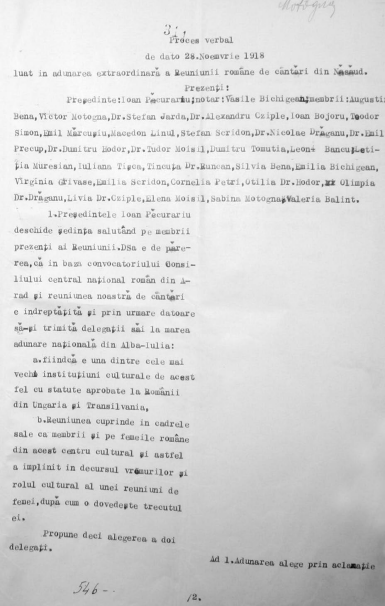 Mandate of the Romanian Association of Singing of Năsăud, in which it says that the Romanian politician Ioan Păcurariu, as president of the association, proposed two deputies in the Great National Assembly from Alba Iulia, - Romania, 1918Română: Credenționalul Reuniunii române de cântări din Năsăud, în care scrie ca Ioan Păcurariu, ca președinte al Reuniunii, a propus alegerea a doi deputaţi pentru Marea Adunare Națională de la Alba Iulia, 1918